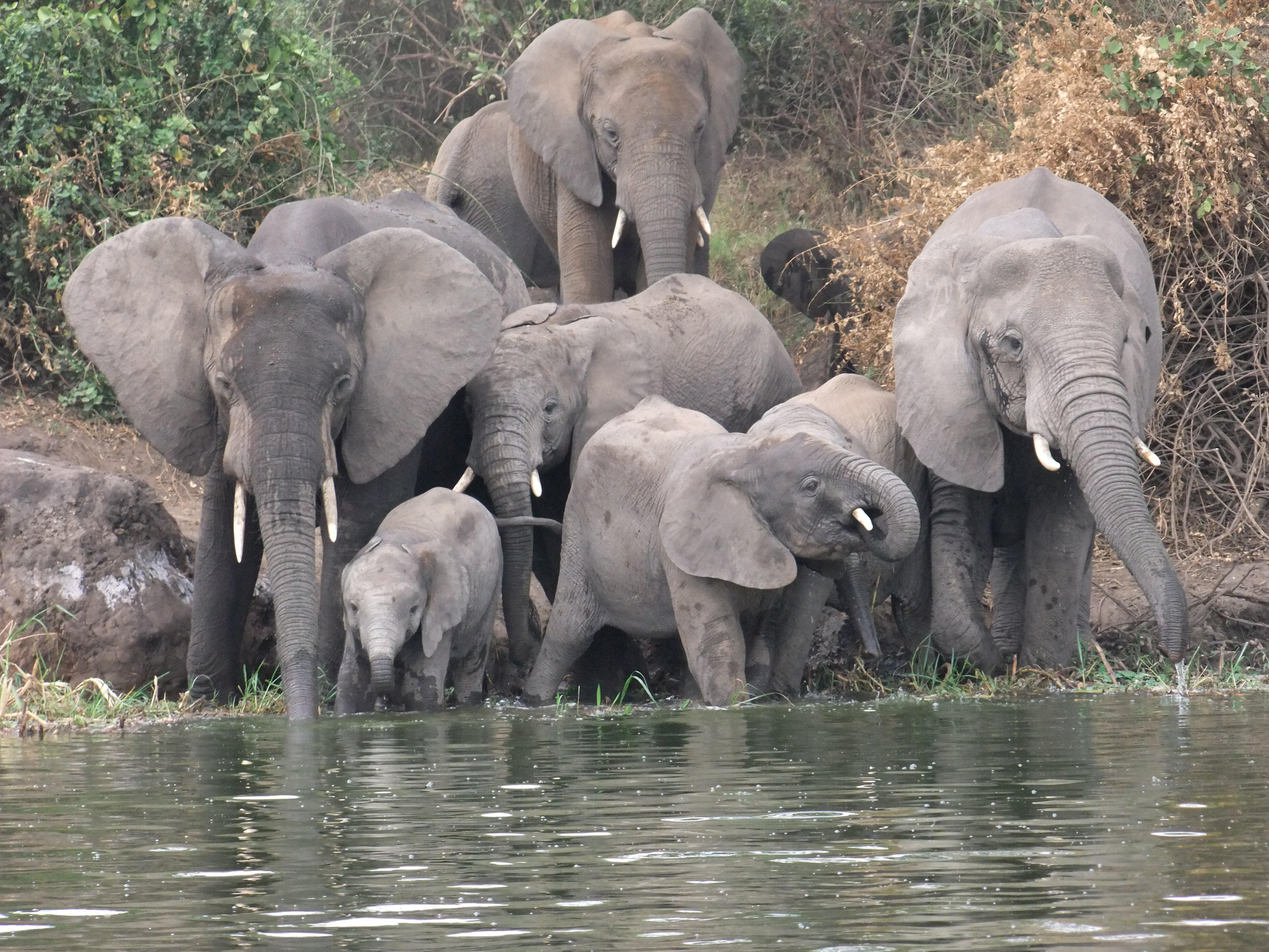 Elephants drinking at Kazinga channel, Uganda